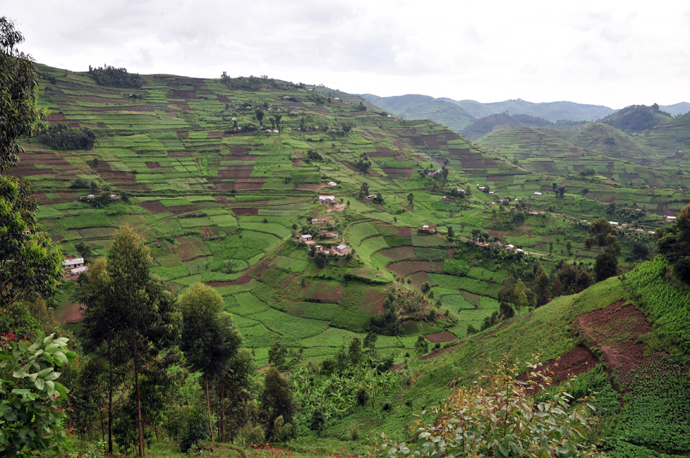 Pic by Neil Palmer (CIAT). The rolling, cultivated hillsides of southwestern Uganda.